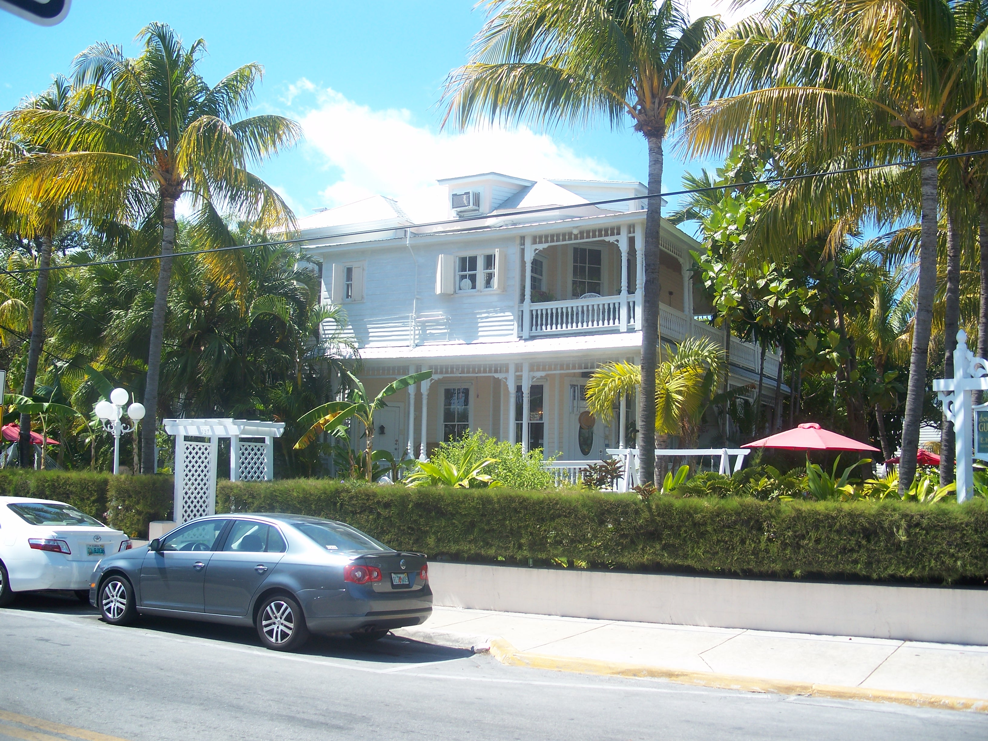 Key West, Florida: Key West Historic District: Eduardo Gato Jr southernmost guest house